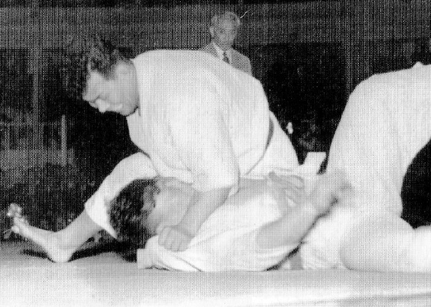 Japanese judoka, Toshiro Daigo(over) and Teruhisa Hatori(under), at the semi-final of All-Japan Judo Championships in 1951.